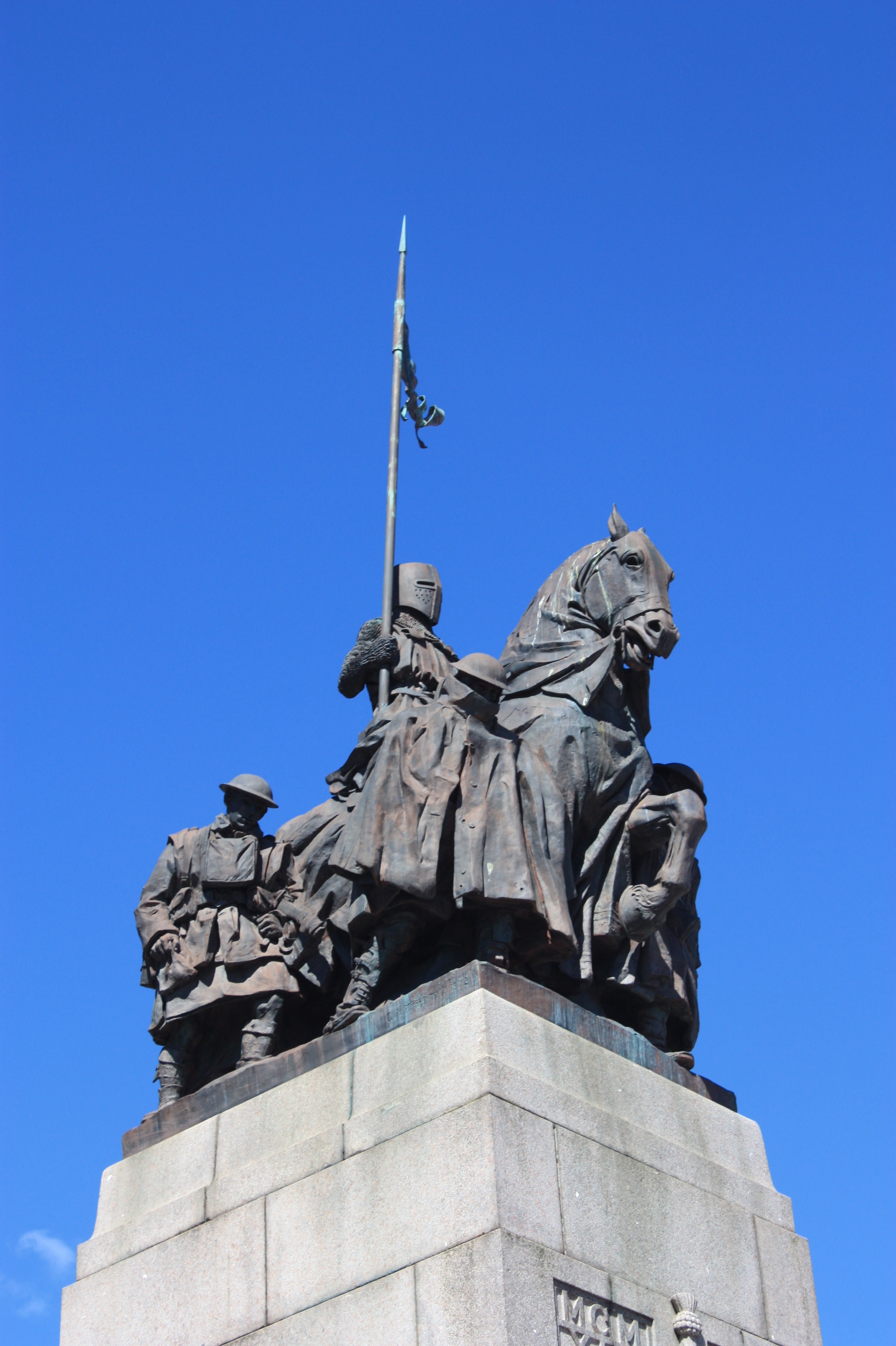 Paisley War Memorial